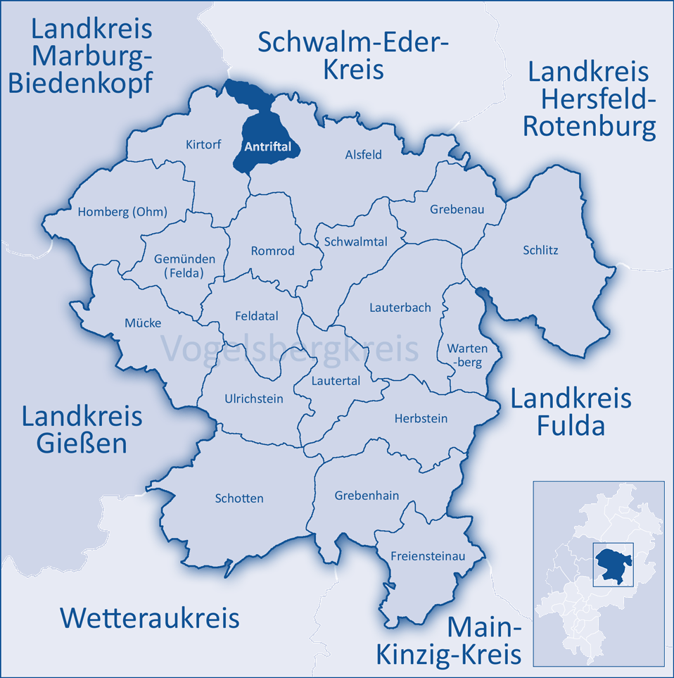 The map shows a district in the area of Vogelsbergkreis